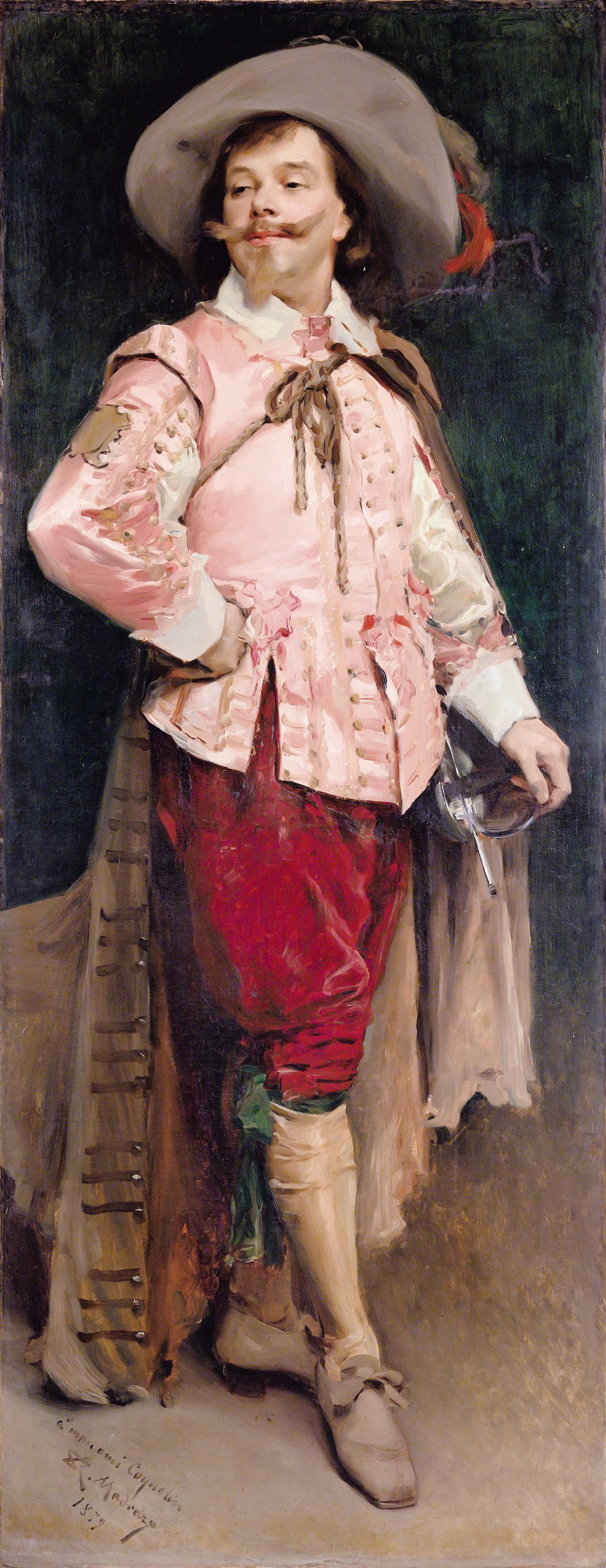 Constant Coquelin l'aîné (1841 - 1909) as Don César de Bazan (Victor Hugo, Ruy Blas) oil on canvas 201 x 78 cm signed b.l.: A mon ami Coquelin R Madrazo 1879